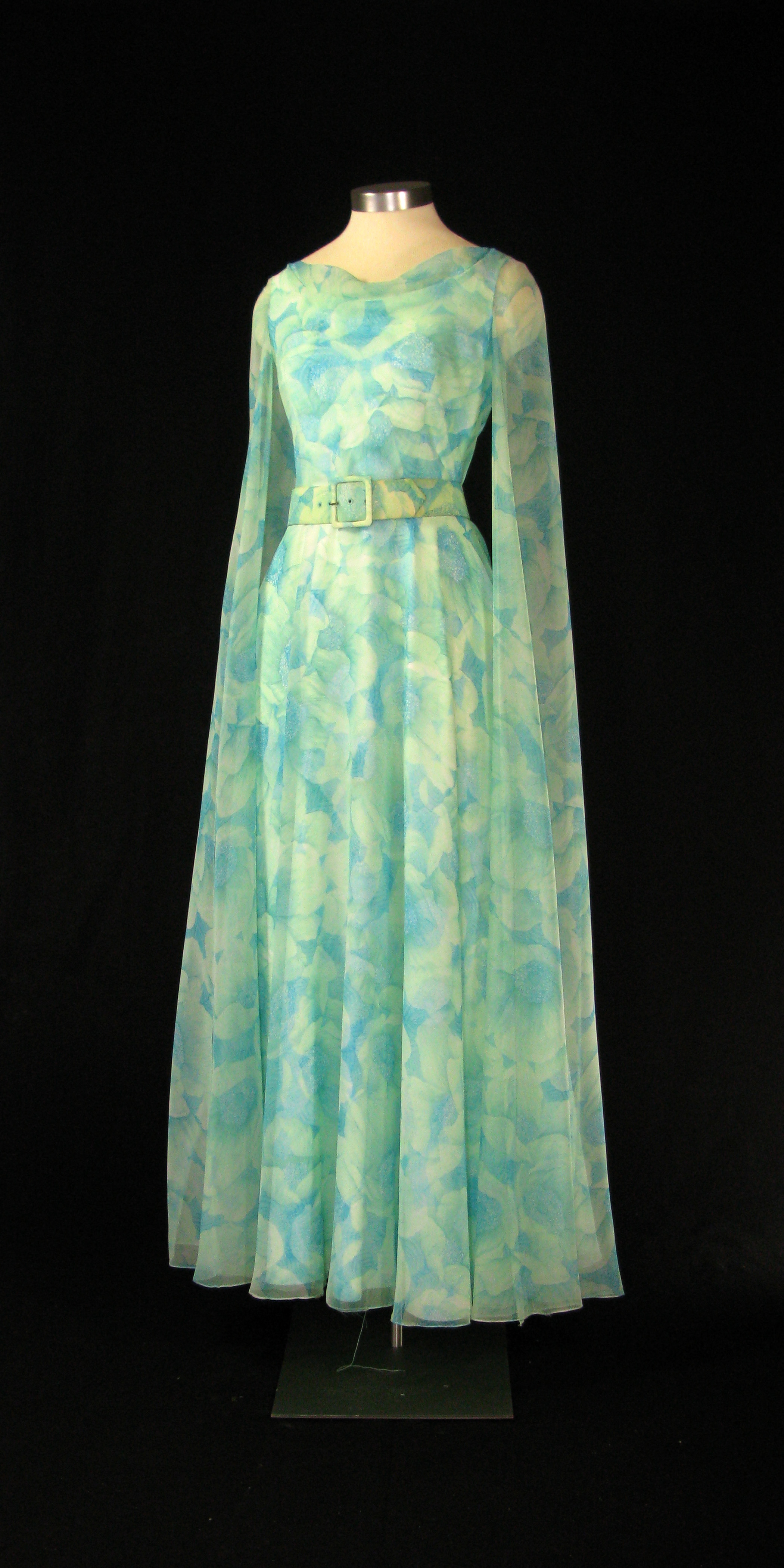 A chiffon gown designed by Luis Estevez for First Lady Betty Ford. The pale blue and green floral dress with floor-length, sheer sleeves features a zip up the back and includes two belts and a scarf.